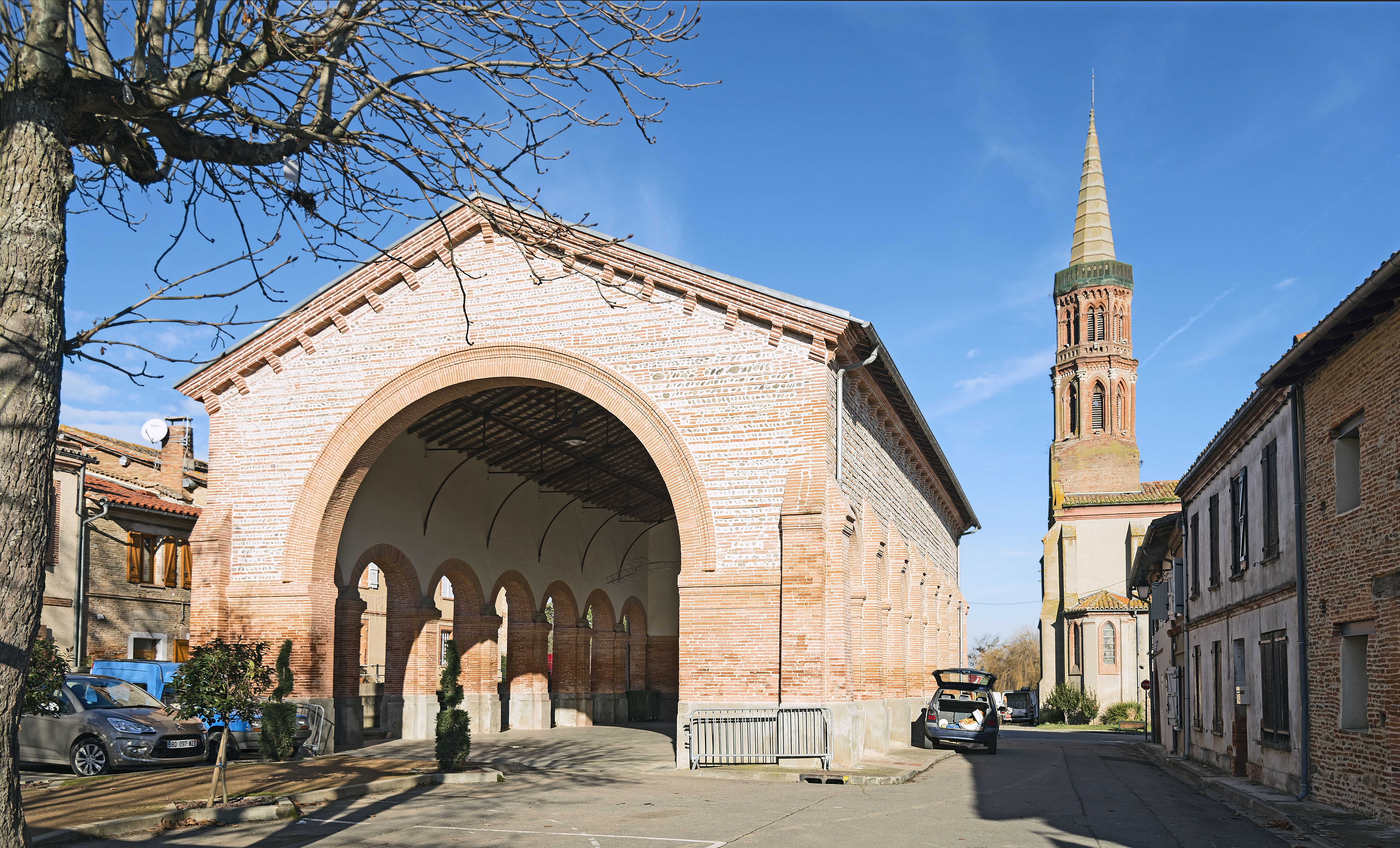 Launac, Haute-Garonne, France. Market hall (1850) exterior - Jacques-Jean Esquié architecte.